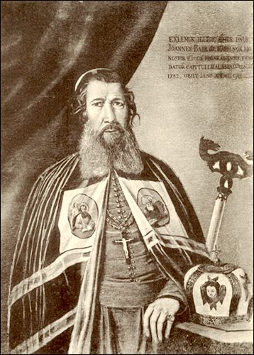 Ioan Bob, Romanian Greek Catholic Bishop of Fagaras 1783-1830